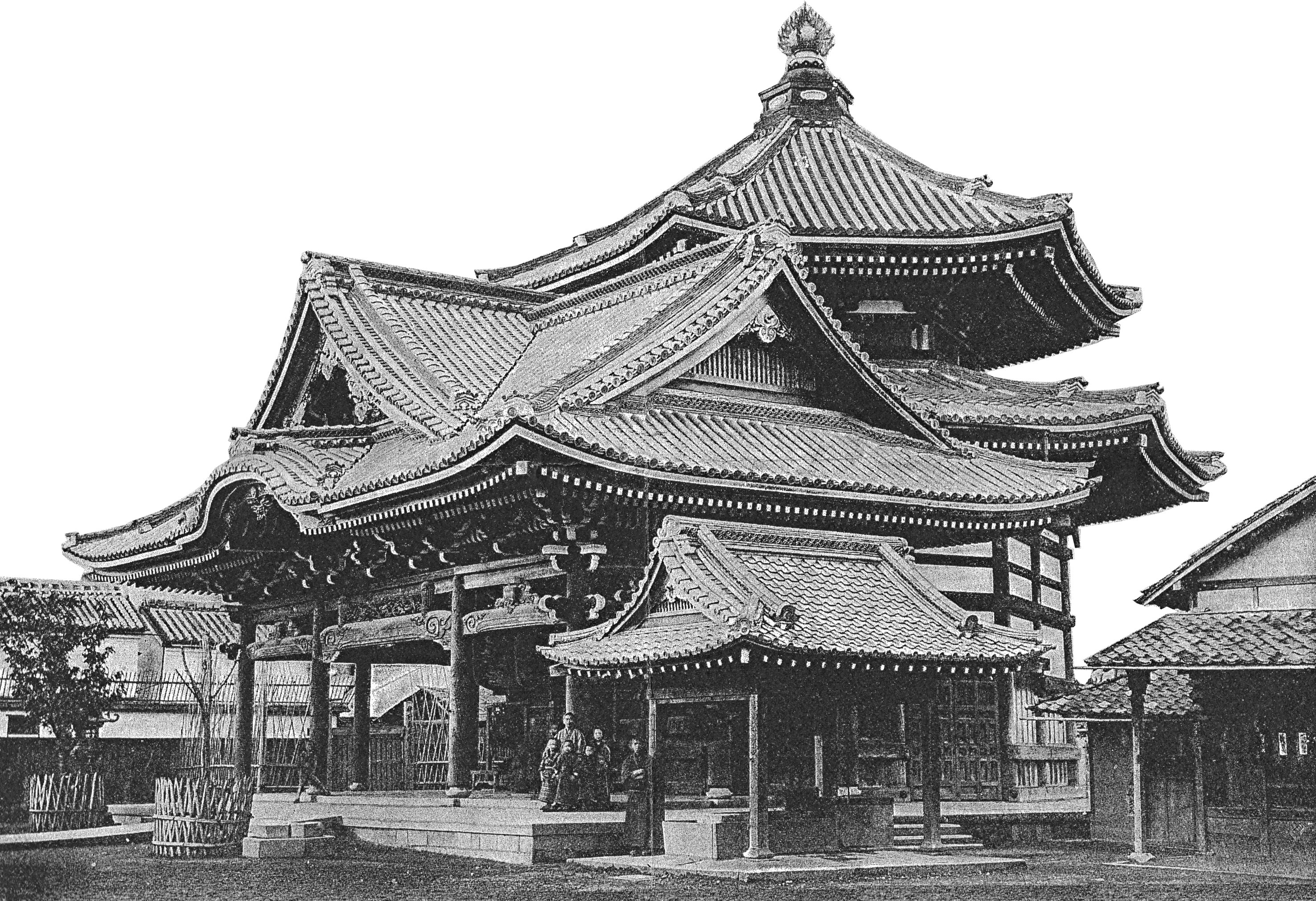 Rokkaku-dô is a remple at Kyoto. As the name suggests, it is six-sided.